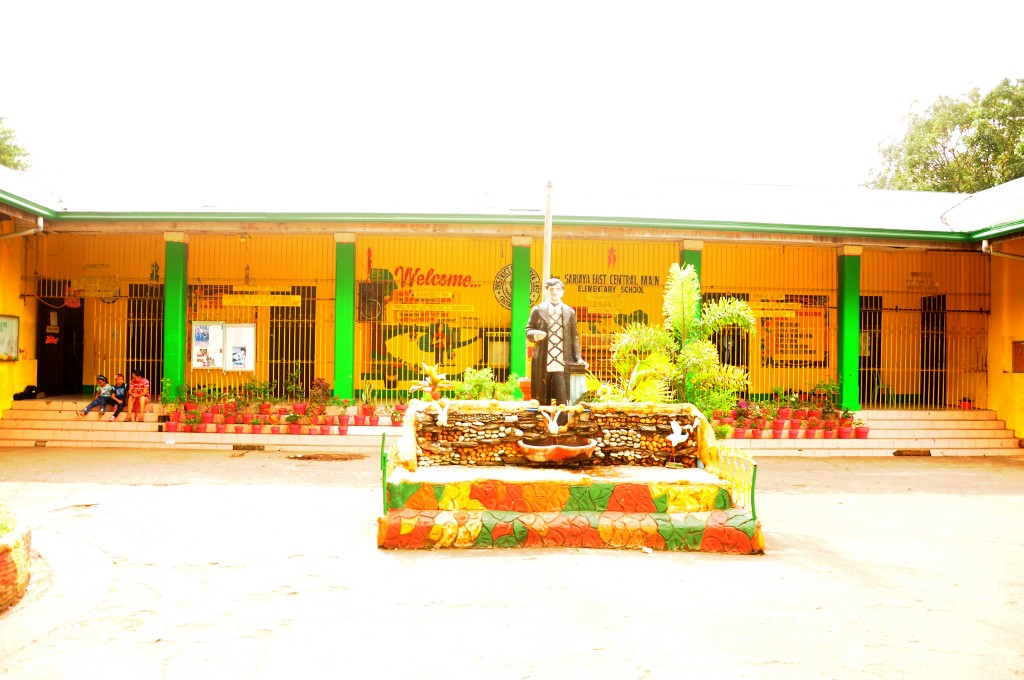 Gabaldon Building of Sariaya East Elementary School, Sariaya, Quezon